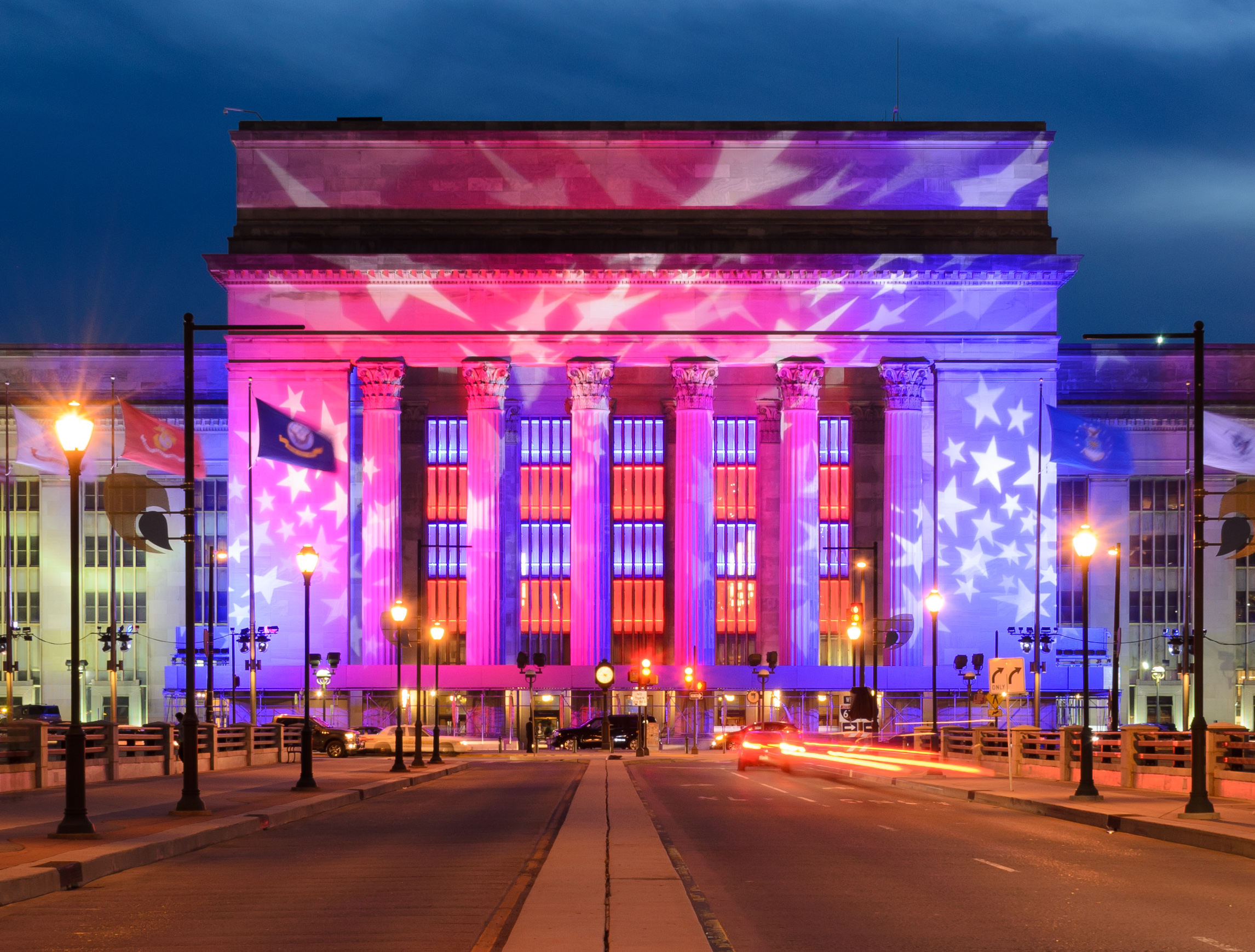 30th Street Station, Philadelphia, illuminated in honor of the 2016 Democratic National Convention.